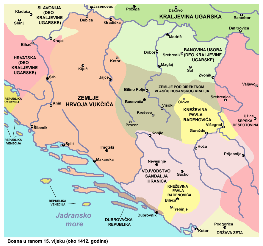 Bosnia in the early 15th century (around 1412) - Lands of Hrvoje Vukčić, Duchy of Sandalj Hranić, Principality of Pavle Radenović, Banovina Usora and Lands under the direct authority of the Bosnian king.Srpskohrvatski / српскохрватски: Bosna u ranom 15. veku (oko 1412. godine) - Oblast Hrvoja Vukčića, Vojvodstvo Sandalja Hranića, Kneževina Pavla Radenovića, Banovina Usora i zemlje pod direktnom vlašću bosanskog kralja.